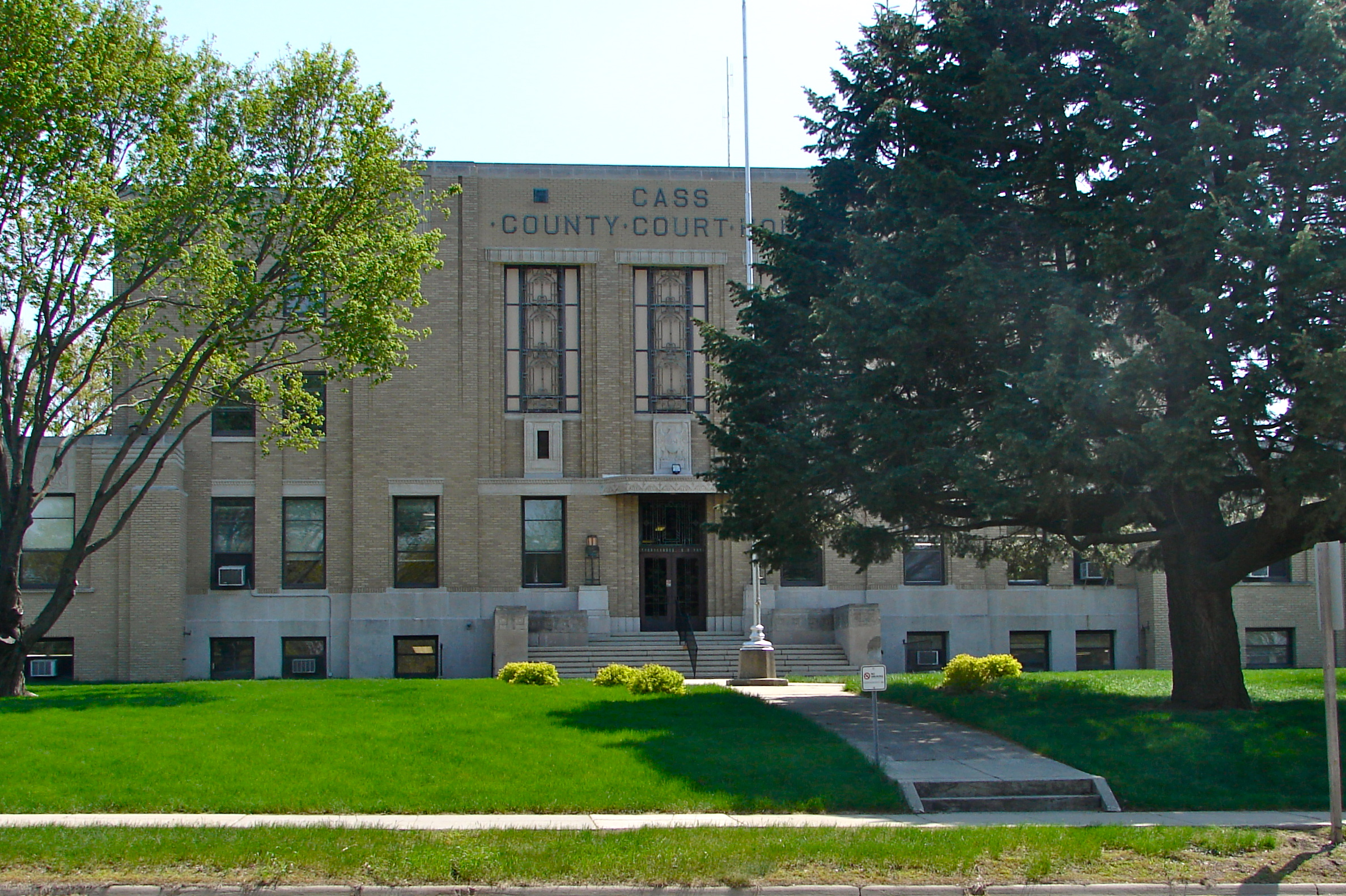 Cass County Court House on the NRHP since August 28, 2003. At 5 W. 7th St., Atlantic, Cass County, Iowa